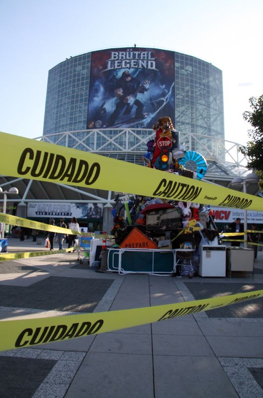 Image of the South Hall at the 2009 E3 expo.